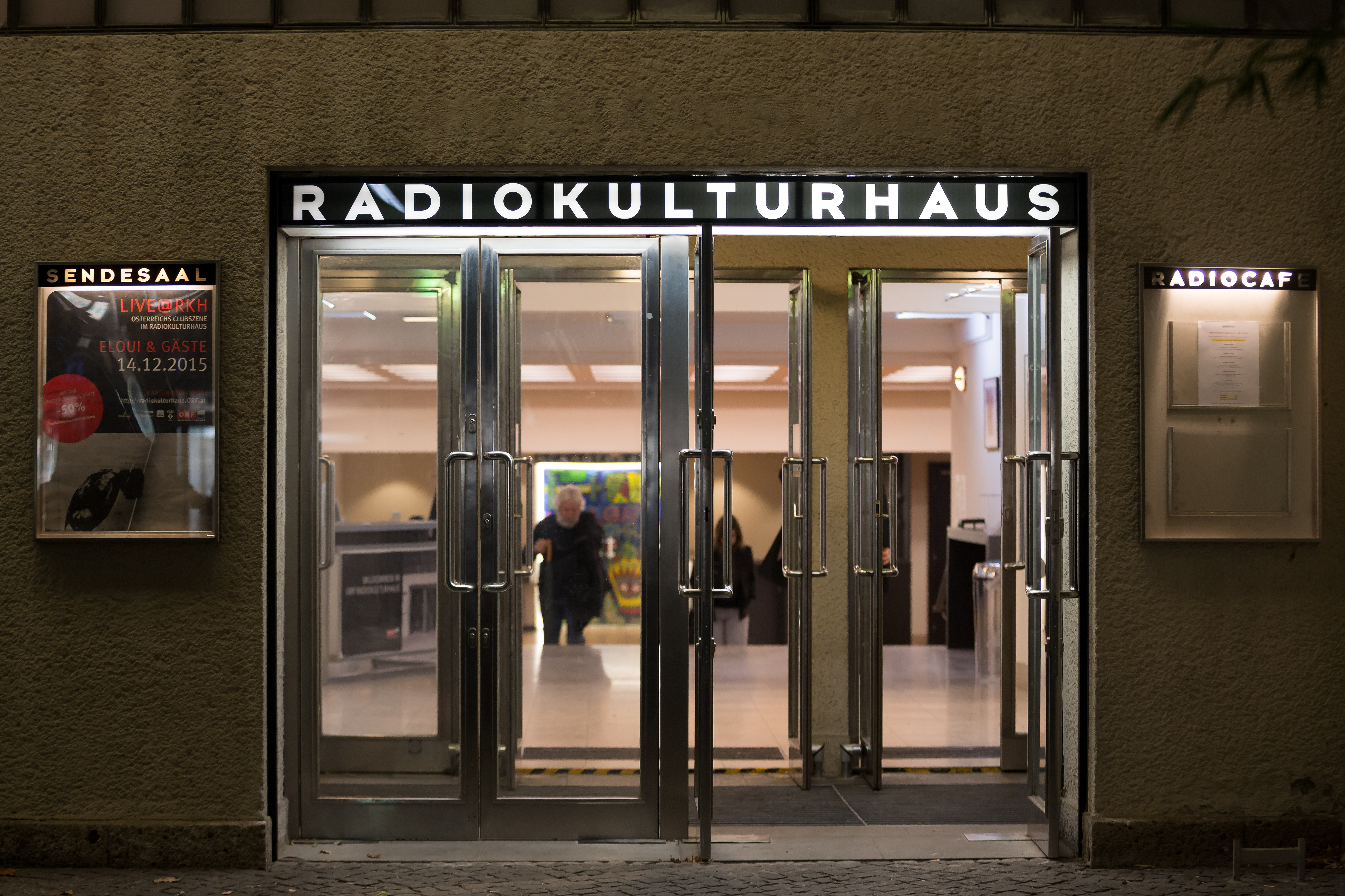 Radiokulturhaus/Funkhaus Wien in Vienna, Austria, during the charity event An Evening for Licht ins Dunkel 2015.